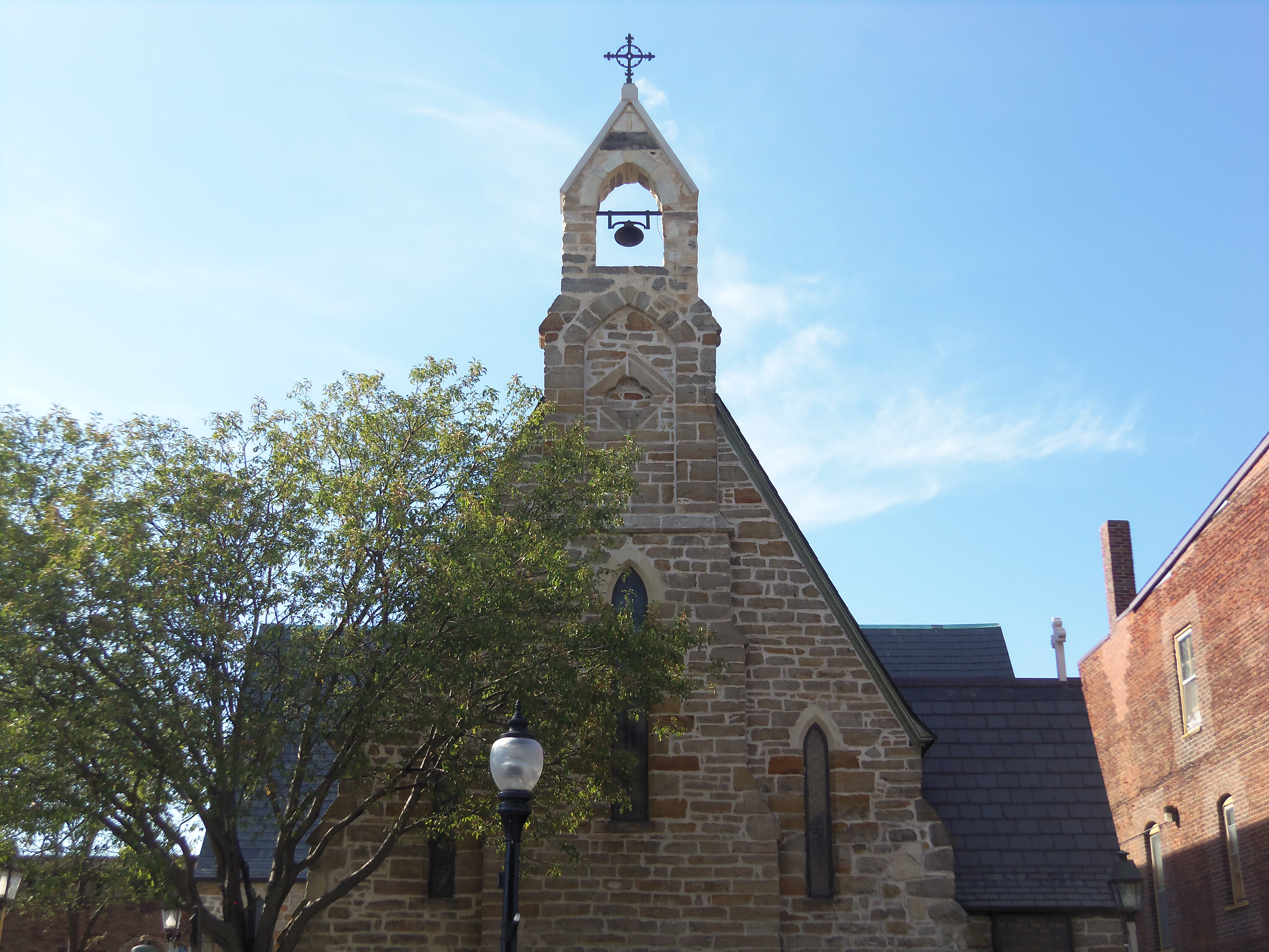 Trinity Episcopal Church in Muscatine, Iowa. It is listed on the National Register of Historic Places.